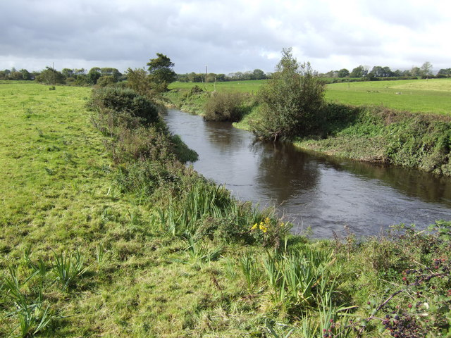 River Maine near Currans Flowing downstream to enter Castlemaine Harbour to the west.